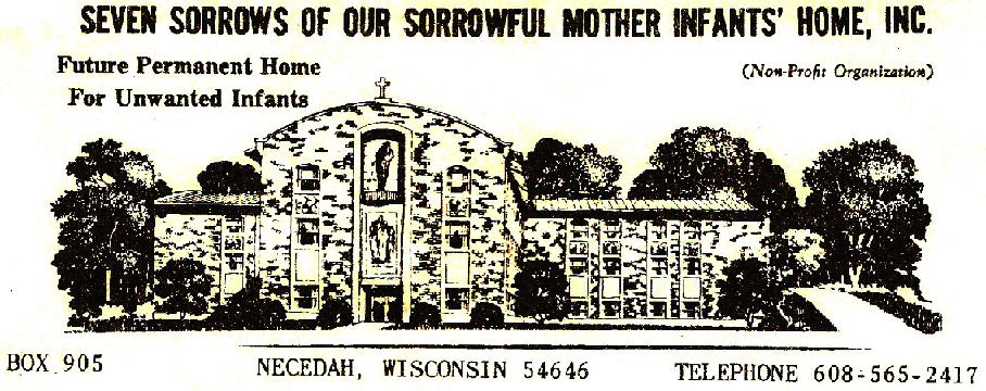 Queen of the Holy Rosary, Mediatrix of Peace Shrine